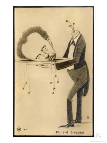 contemporary cartoon by Oscar Garvens